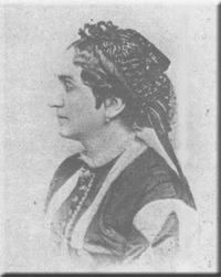 Princess Anka Obrenović-Konstantinović